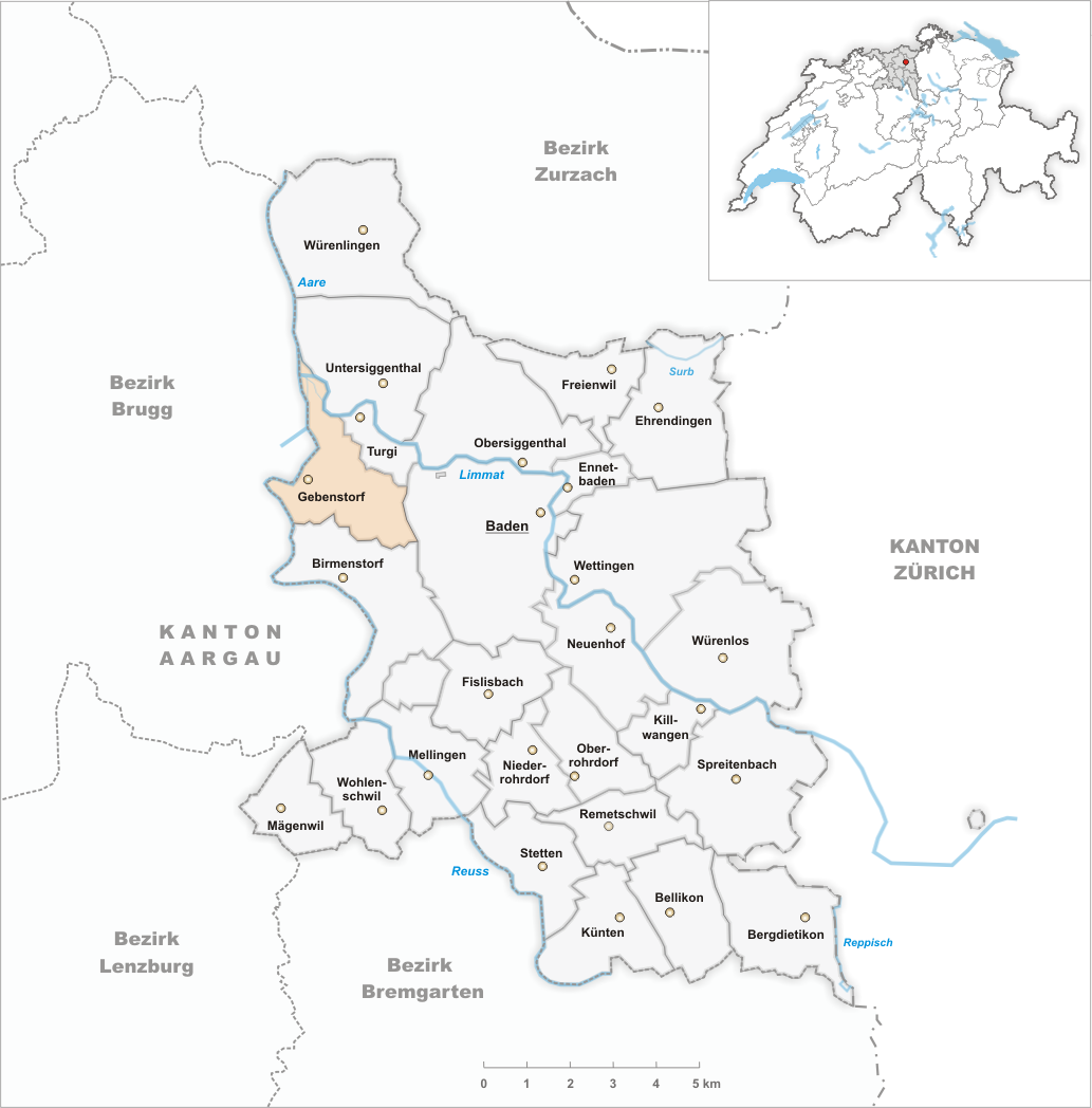 Municipality Gebenstorf